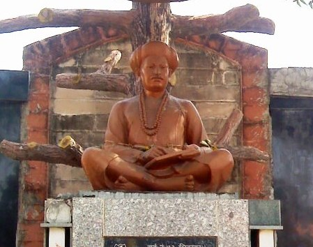 Sant Jagnade Maharaj staute at Nagpur